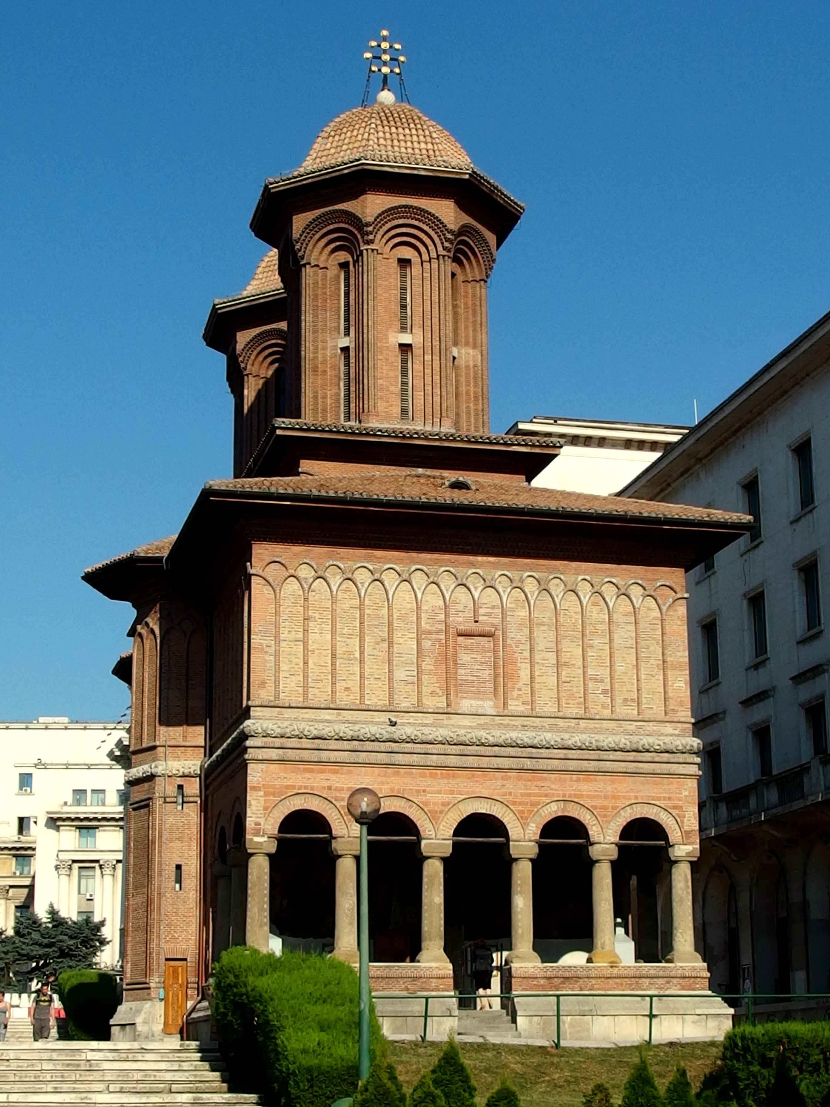 2014-08-19 in Bucharest.